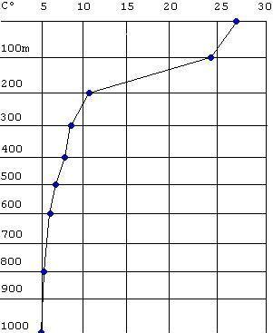 This oceanic temperature profile was created from data collected during the International Geophysical Year, and published in the Atlantic Ocean Atlas, part of the Woods Hole Oceanographic Institution Atlas Series, Vol. 1. (Woods Hole: Woods Hole Oceanographic Institution, 1960). This graph was adapted from data presented on page 121, for Station #175; it was collected at 8 deg. 15' N, 47 deg. 36' W, on May 17, 1957. It is not in the book itself, but merely an illustration of the temperature and depth data, were it graphed. The interval is roughly 100 meters, with the top line representing the surface; increments are in 5 deg. Celsius. Notice the levelling-off of the temperature decrease below 200 meters.